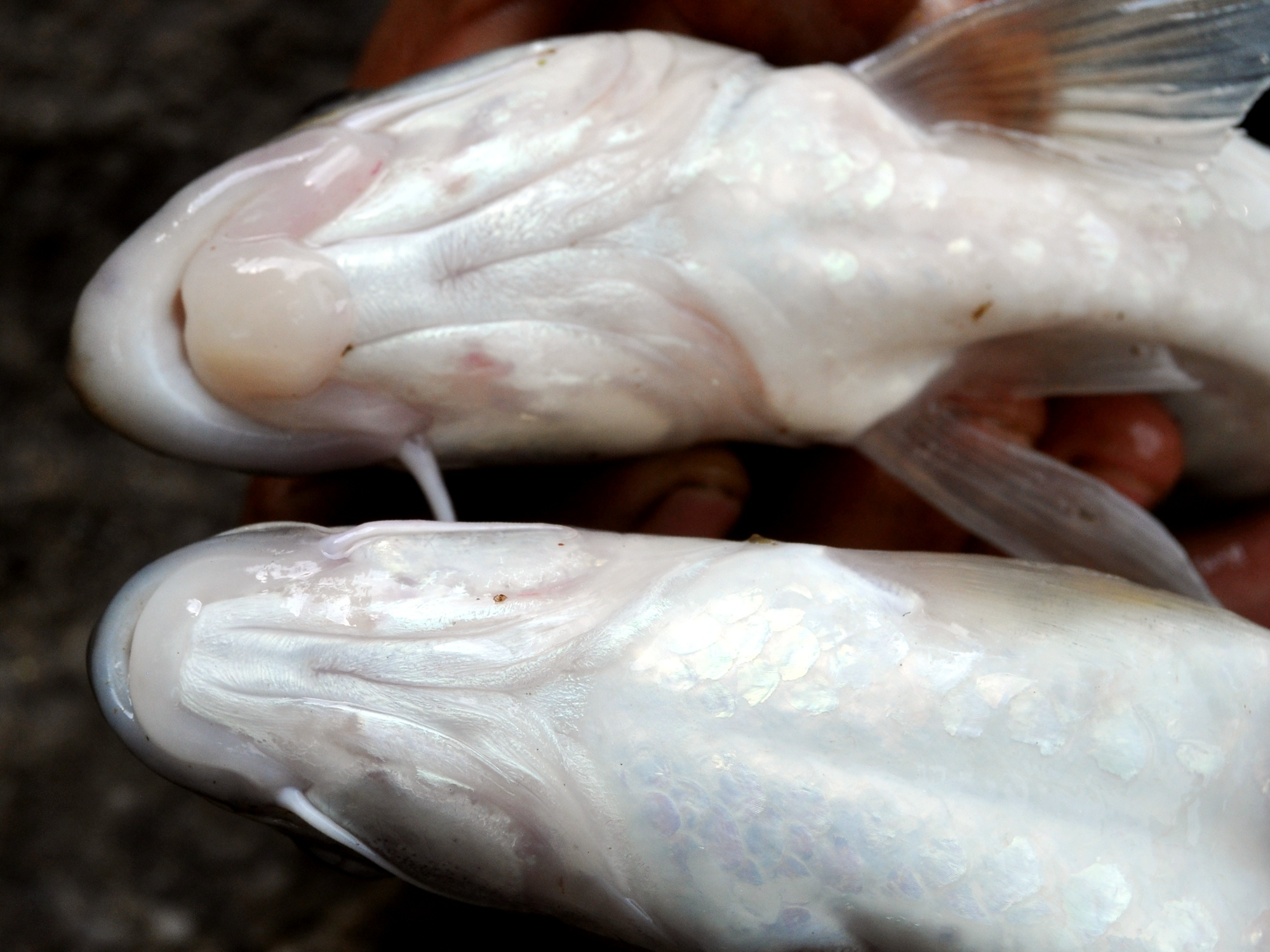 Tor douronensis, 245 mm SL (standard length); view, in comparison with Tor tambroides (above). From Jambi, Sumatra, Indonesia.